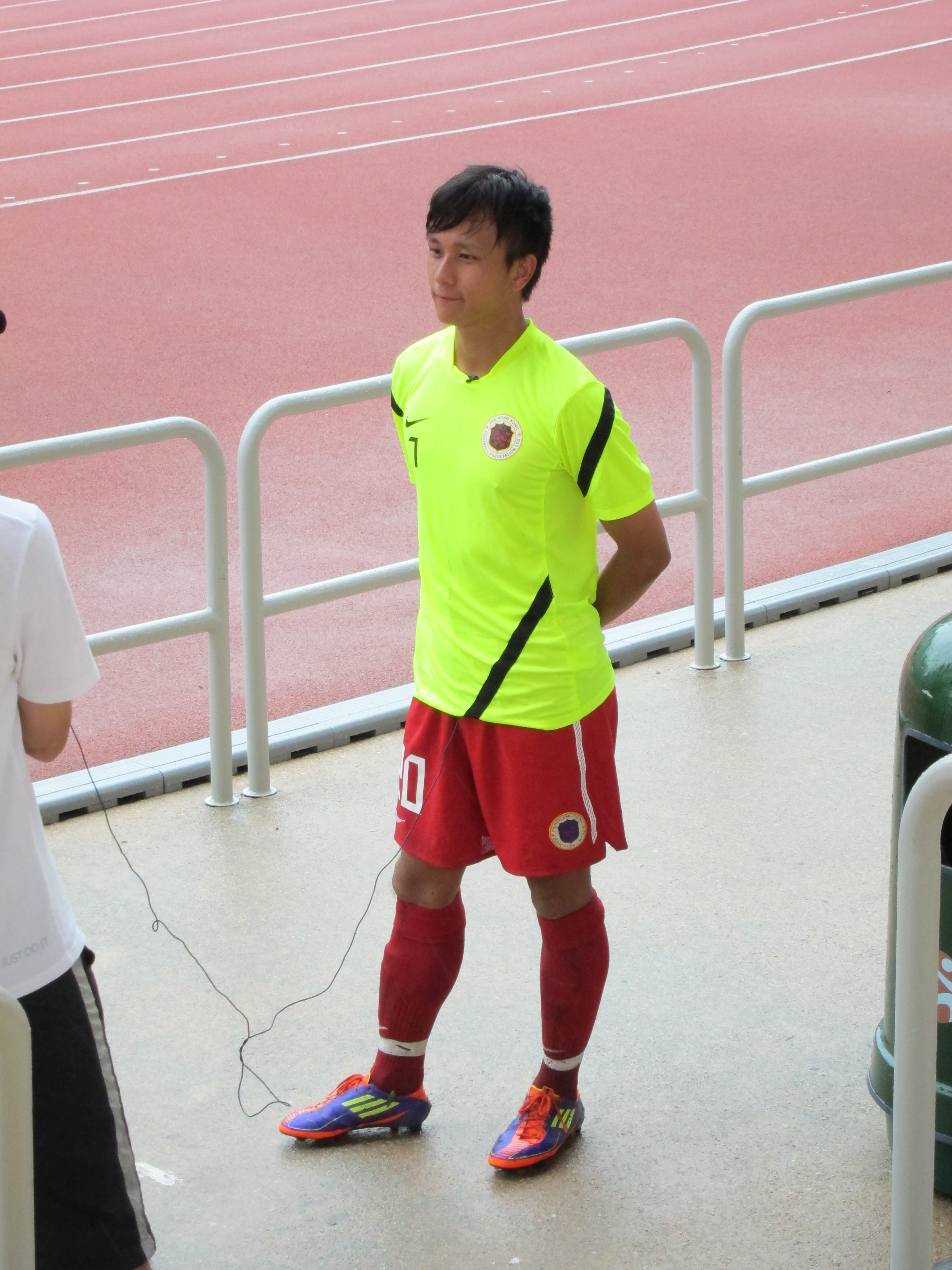 Lo Kwan Yee playing for Hong Kong national football team